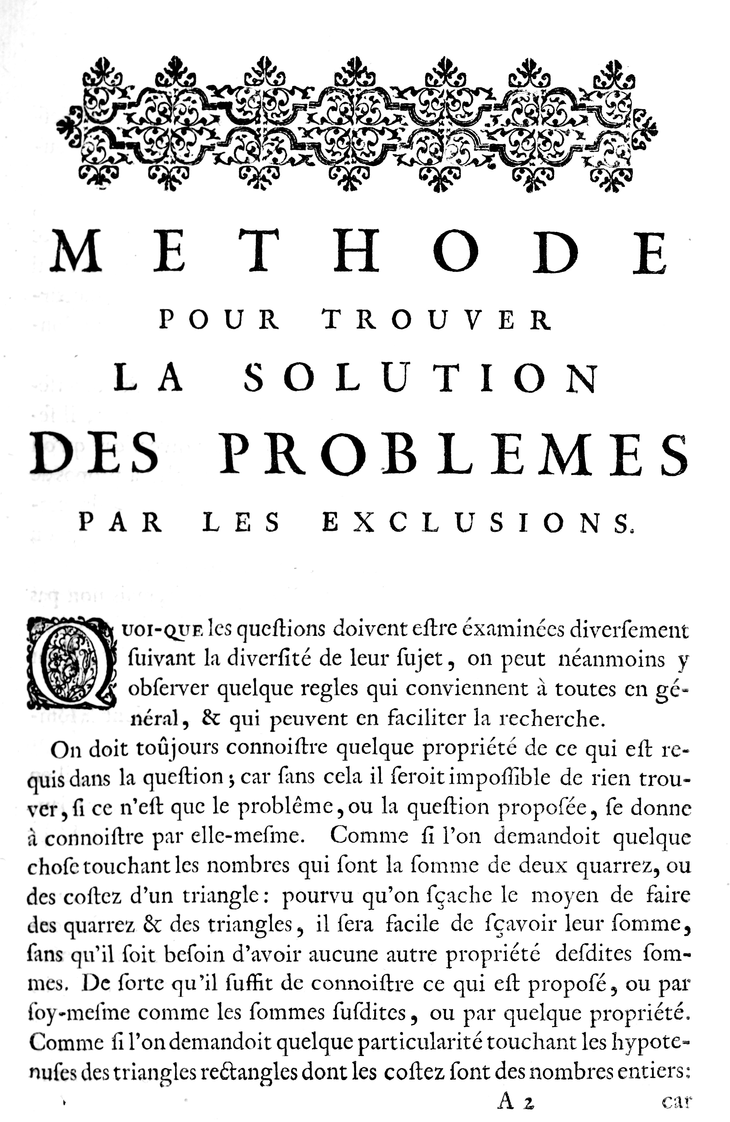 Title page of La Methode des exclusions by Bernard Frenicle de Bessy